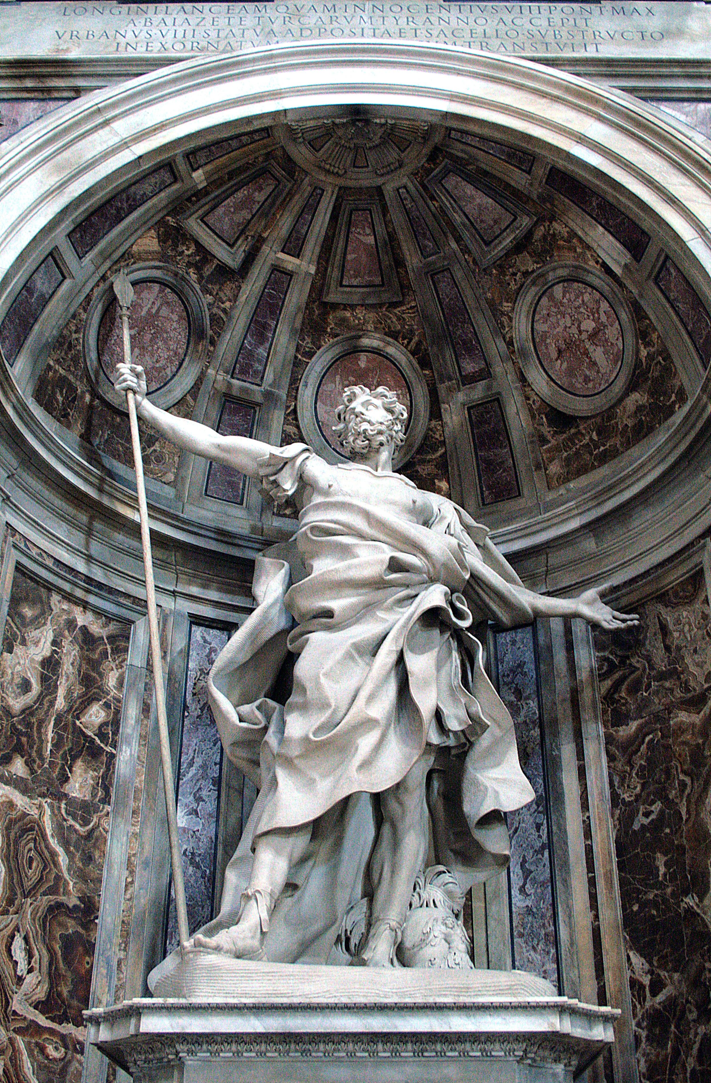 Statue of Saint Longinus, St. Peter's Basilica, Vatican - Work of Gian Lorenzo Bernini (1598–1680).